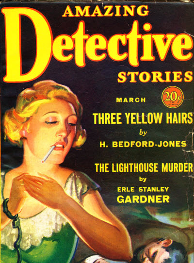 Cover of the March 1931 issue of Amazing Detective Stories. Artist unknown.